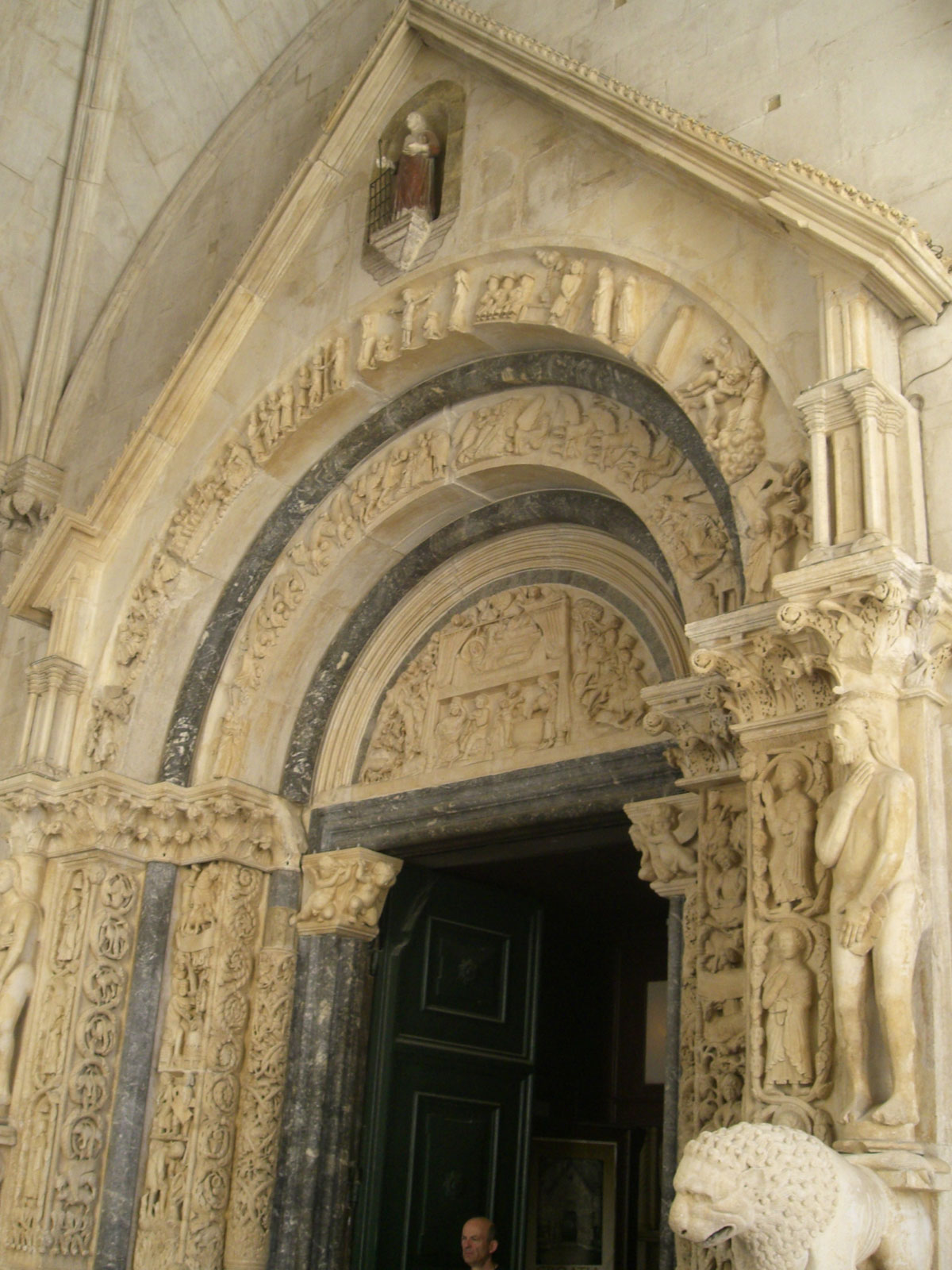 Trogir - entrance to cathedral